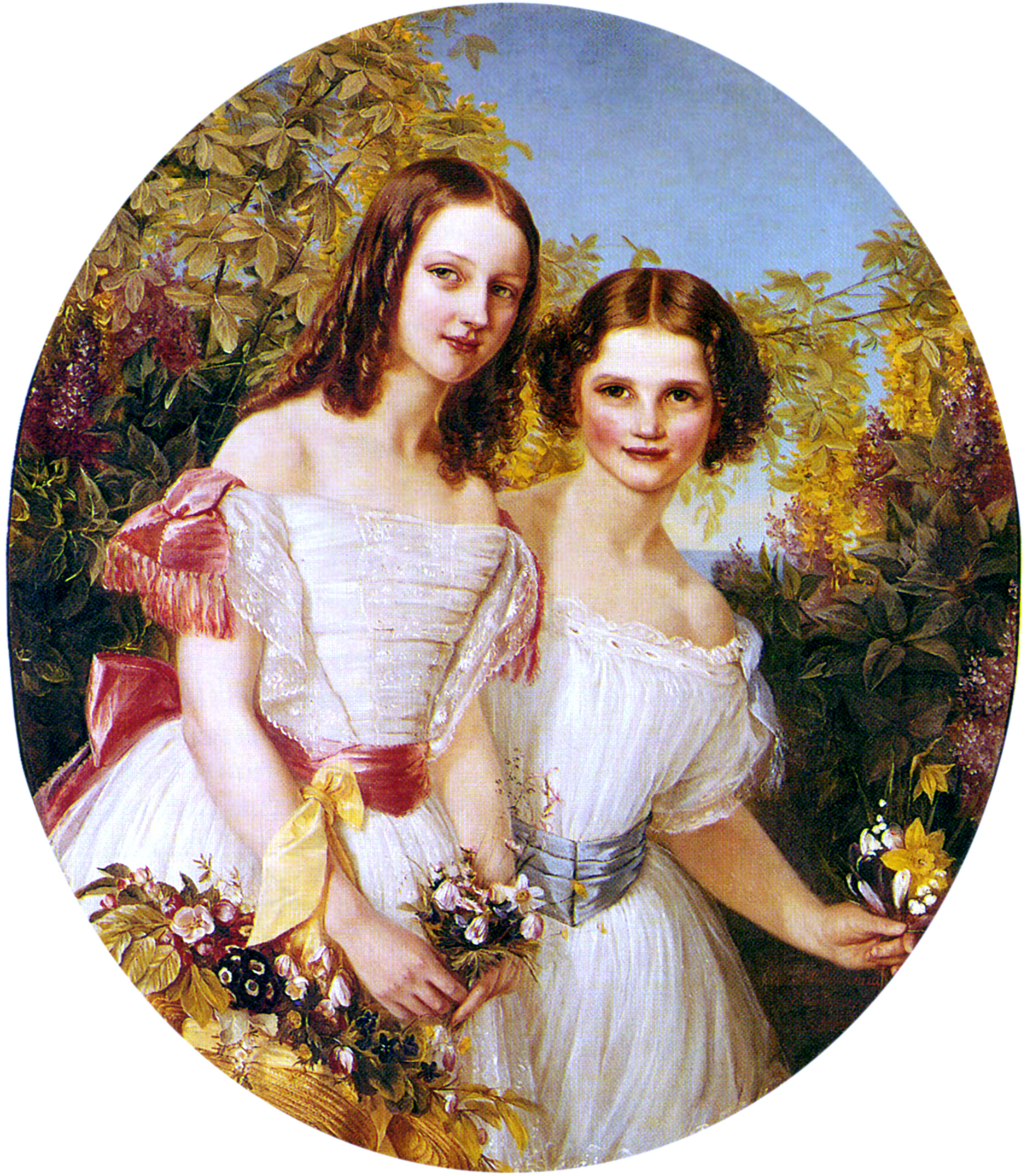 Portrait of Alexandra and Dagmar, later Queen Alexandra of England and Empress Marie Feodorovna of Russia.